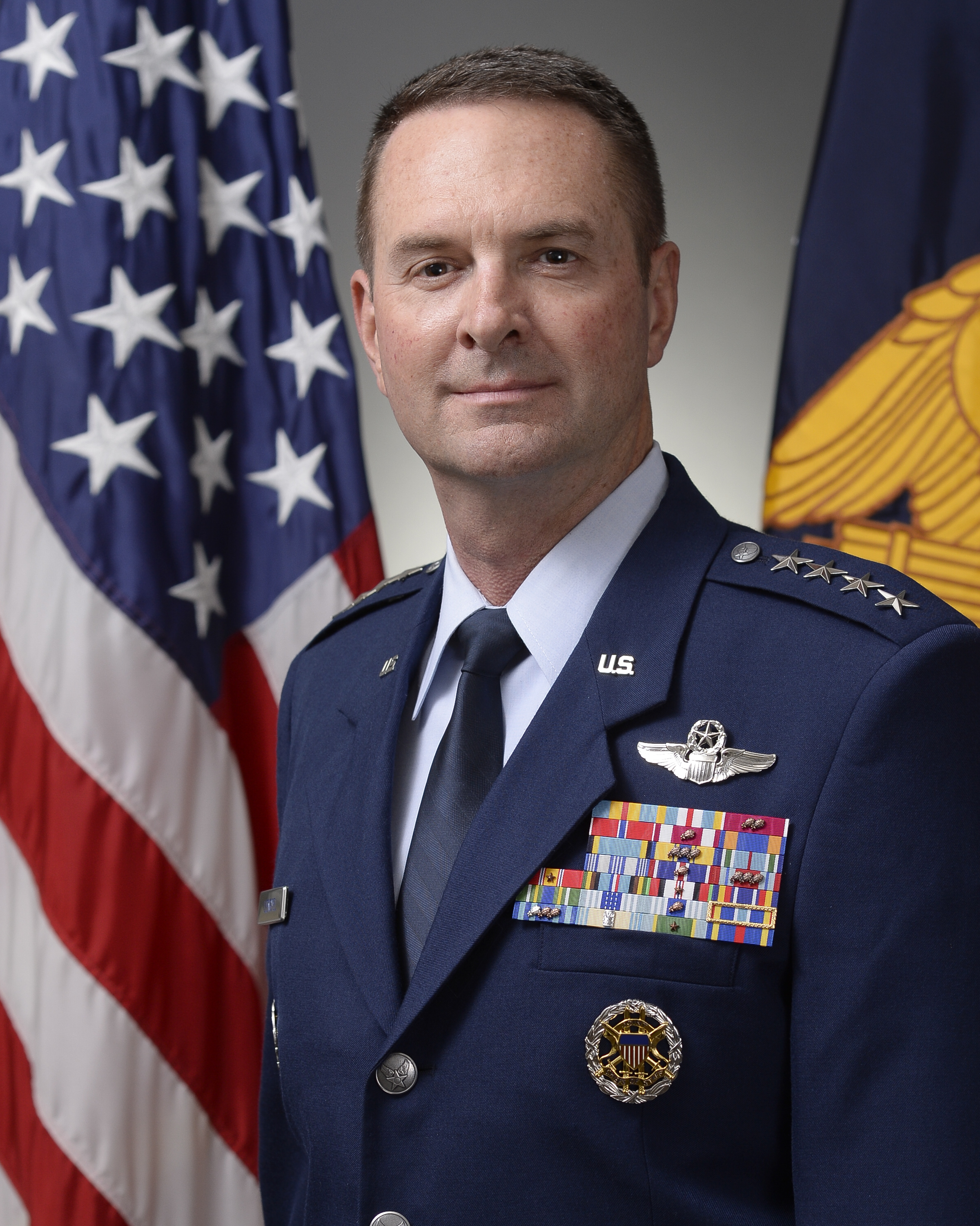 Gen Lengyel Official Photo